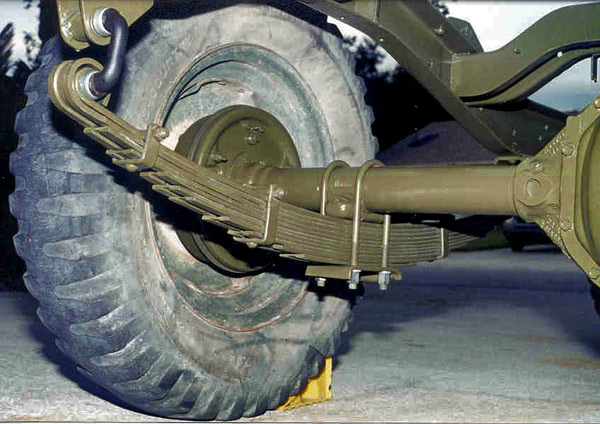 A picture of a traditional leaf spring.